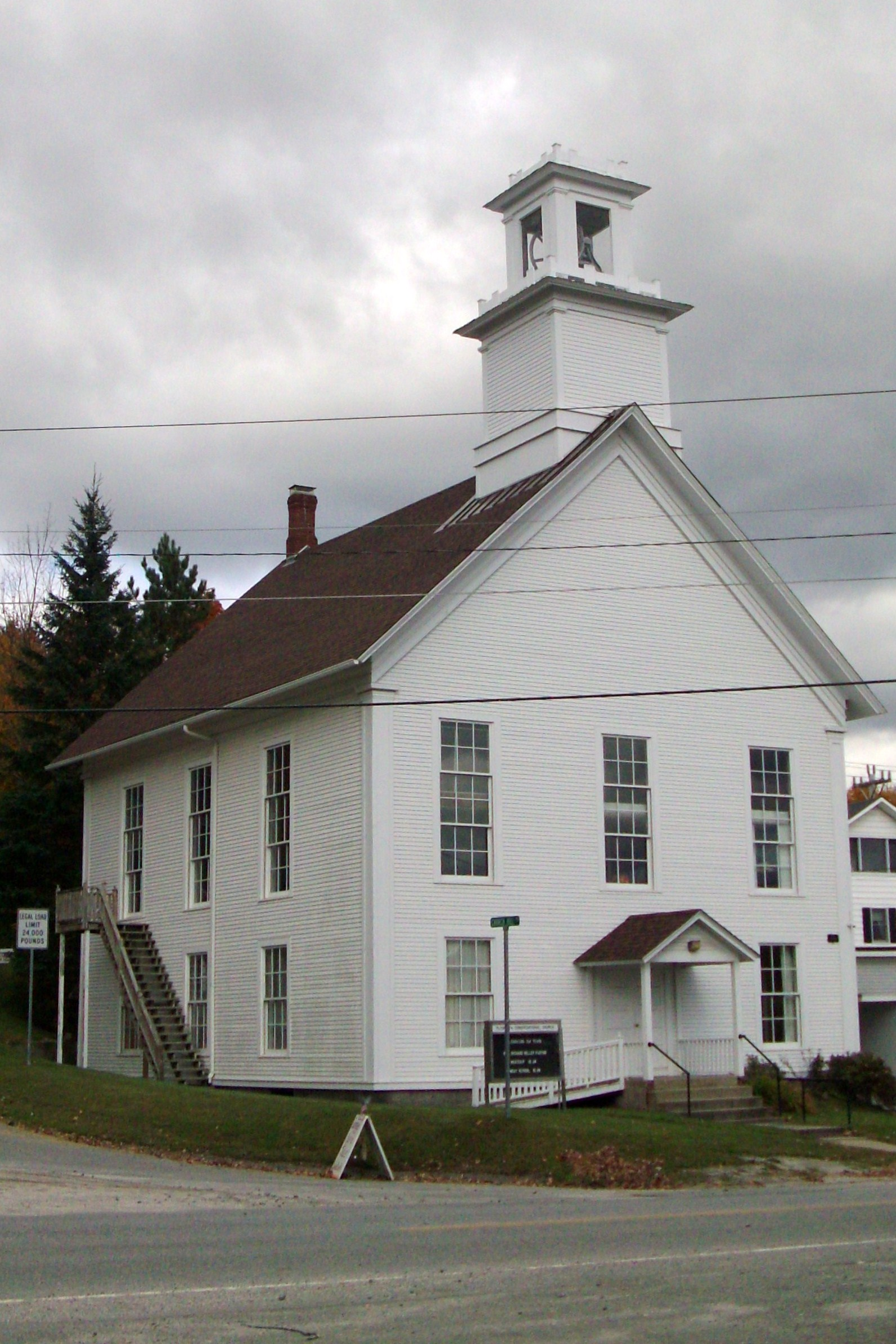 The Plymouth Congregational Church on VT Route 105 in East Charleston, Vermont